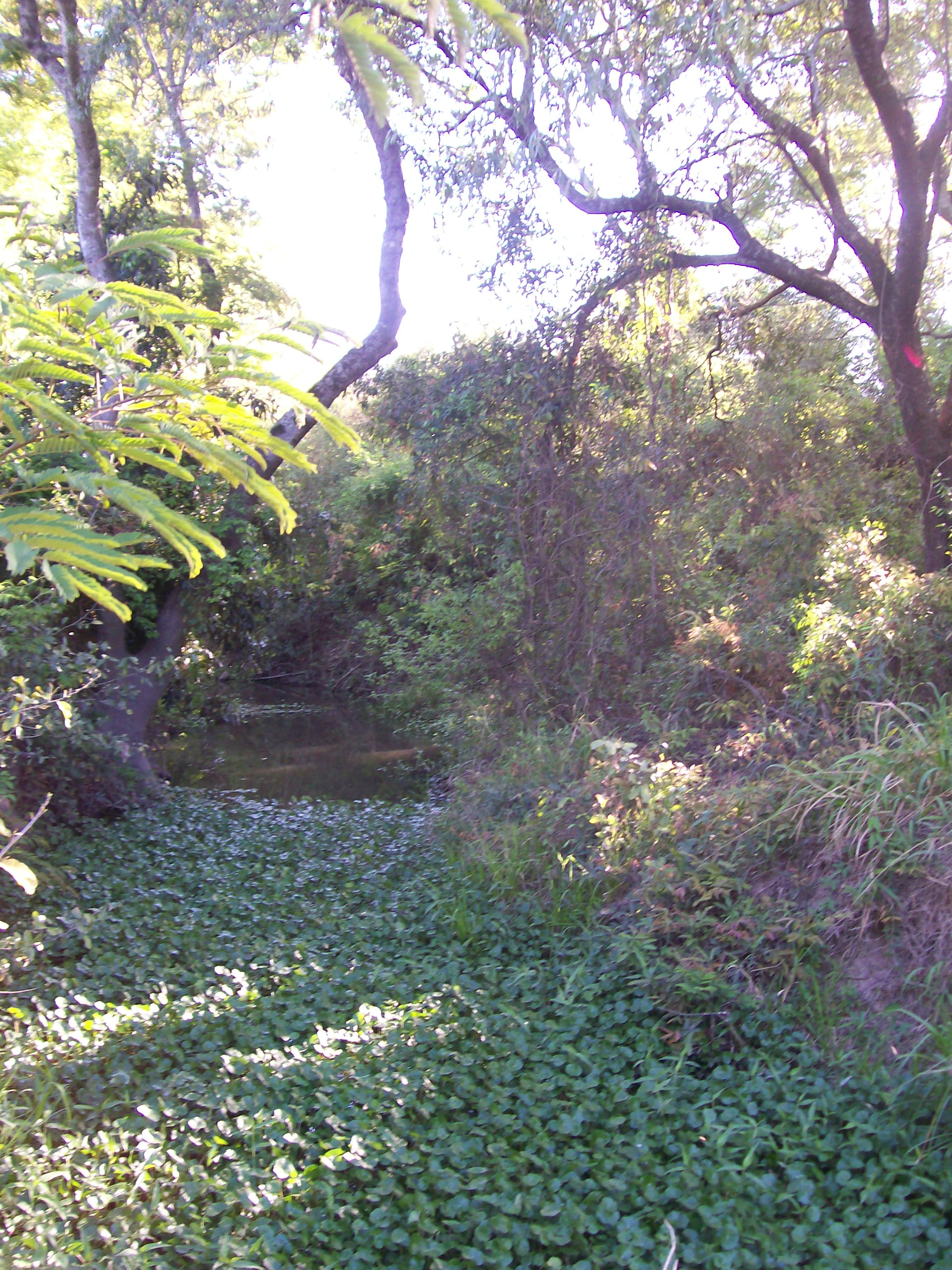 Ojeda Stream near barrio Don Santiago in Resistencia, Chaco, Argentina. Part of the course is covered with aquatic plants. View towards mouth.